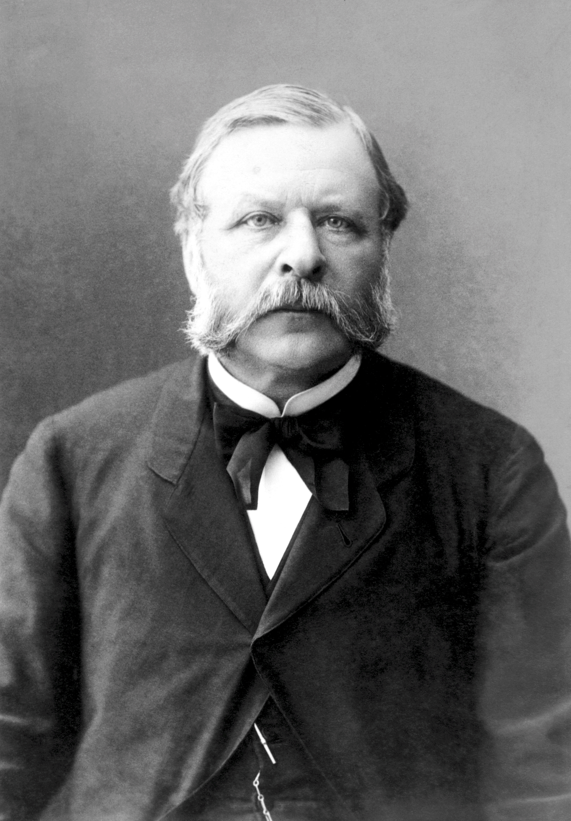 Portrait photography of William Henry Waddington ( (1826–1894), French ambassador and Prime Minister.